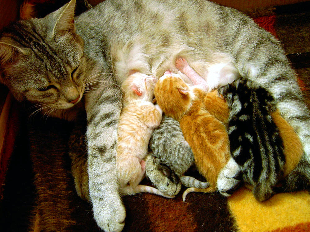 Mother cat nursing six kittens